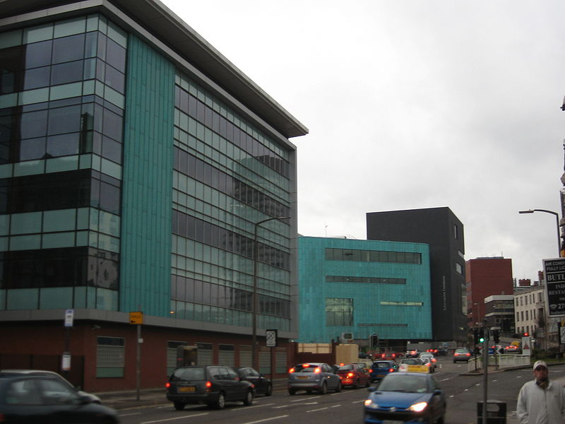 Sheffield Bioincubator